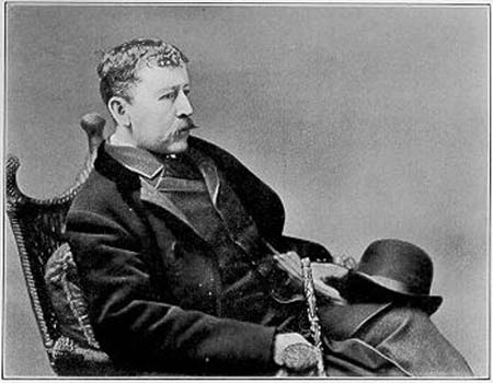 Aldrich in his 40s